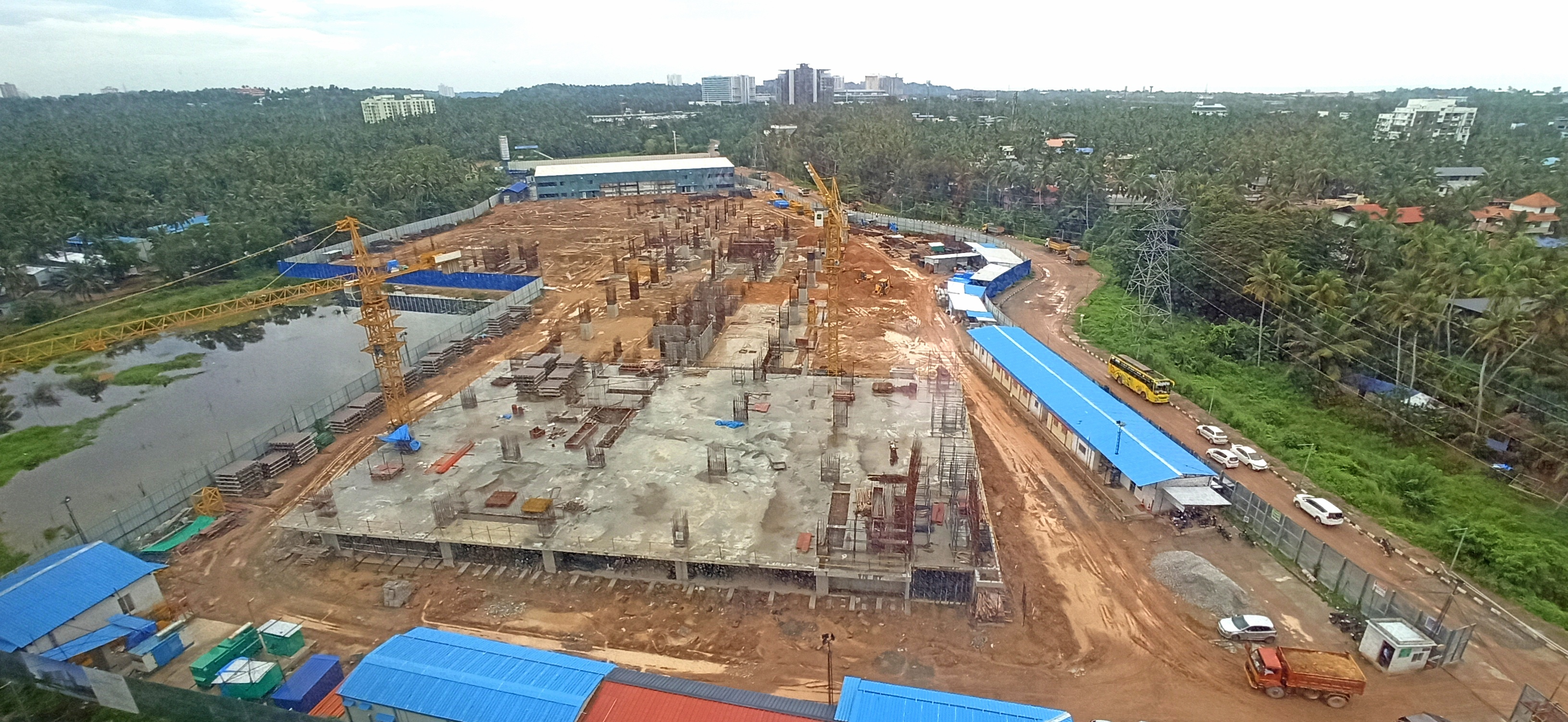 US based Taurus group is constructing business space and a shopping mall in Technopark, Trivandrum.